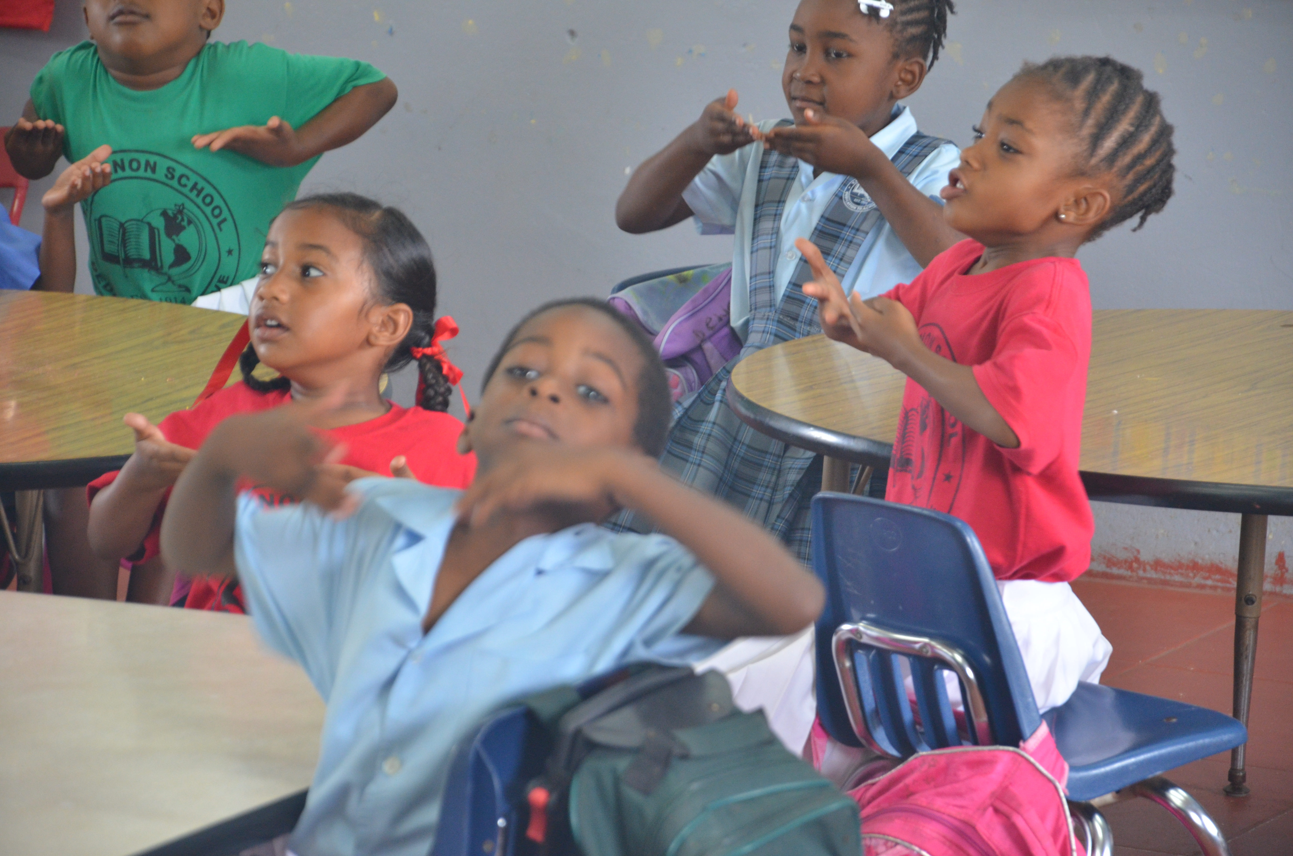 Antigua: Animal Yoga at T.N. Kirnon